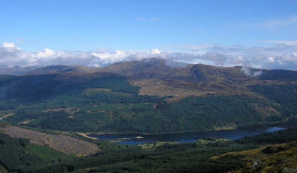 Loch Lubnaig and Ben Vorlich. Taken on 25th September by User:Grinner.